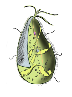 Mixotricha paradoxa lost its mitochondria but retained other organelles.